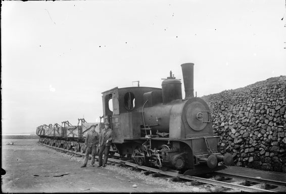 Um 1925. Eimreiðin Pioneer. Ljósmyndari / Photographer: Magnús Ólafsson Format: Glerplata / Glass negatives, 10 x 15 cm. Höfundarréttur / Rights Info: Enginn þekktur höfundarréttur / No known restrictions on publication. Geymsla / Repository: Ljósmyndasafn Reykjavíkur / Reykjavík Museum of Photography, Tryggvagata 15, 6. Hæð / 6th floor Númer myndar / Call Number: MAÓ 172 Myndavefur Ljósmyndasafnsins / Reykjavík Museum of Photography´s photoweb: ljosmyndasafn.reykjavik.is/fotoweb/Grid.fwx